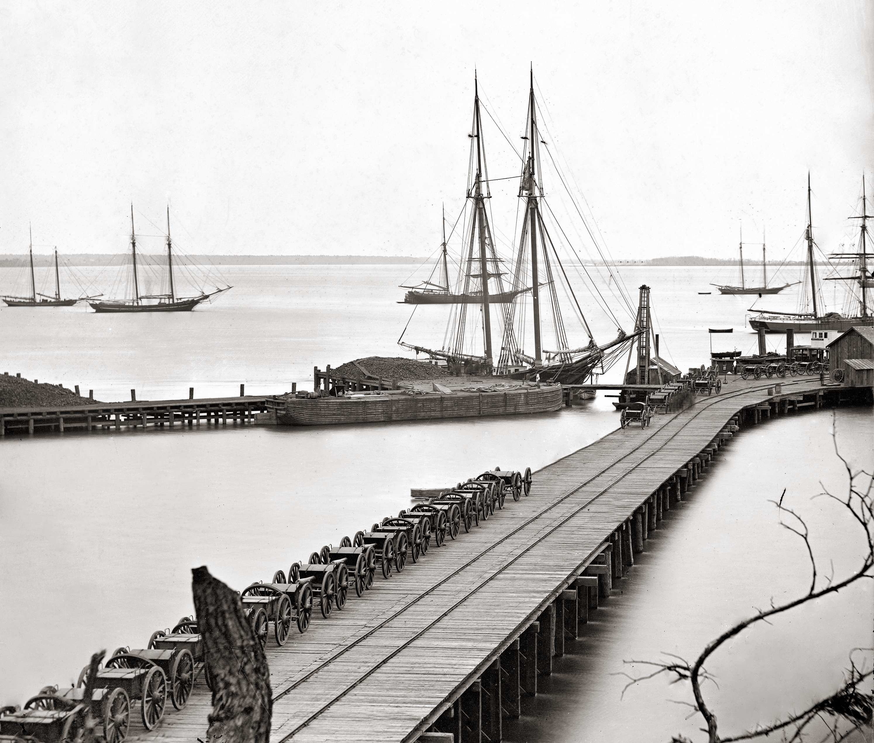 The City Point, Virginia waterfront during the Siege of Petersburg, a series of battles which took place during the American Civil War.